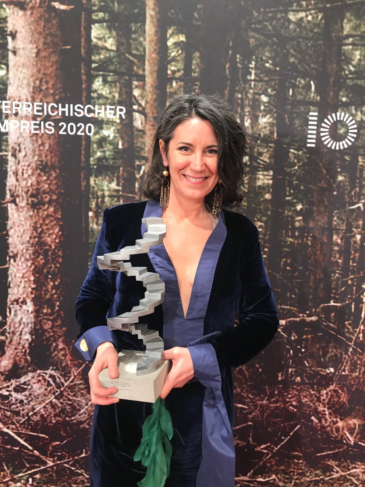 Christine Ludwig at the austrian Movieawards 2020